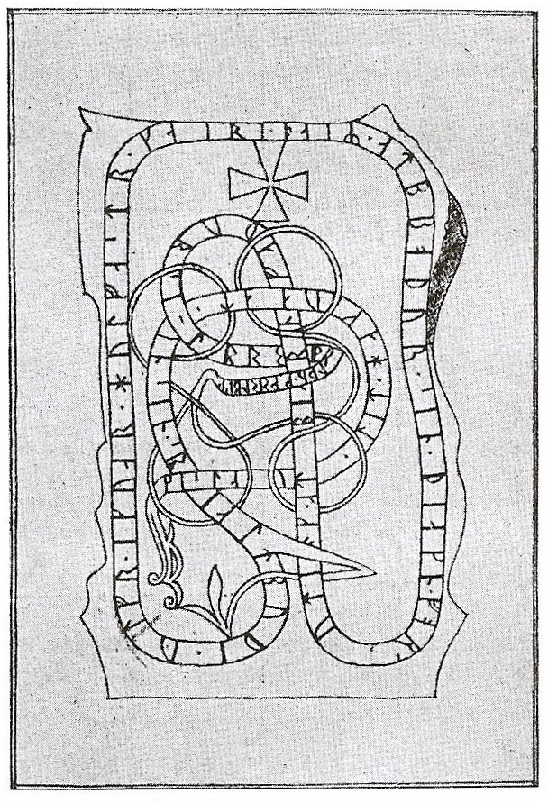 drawing of a lost runestone (U 363, Gådersta, Skepptuna parish, Uppland).